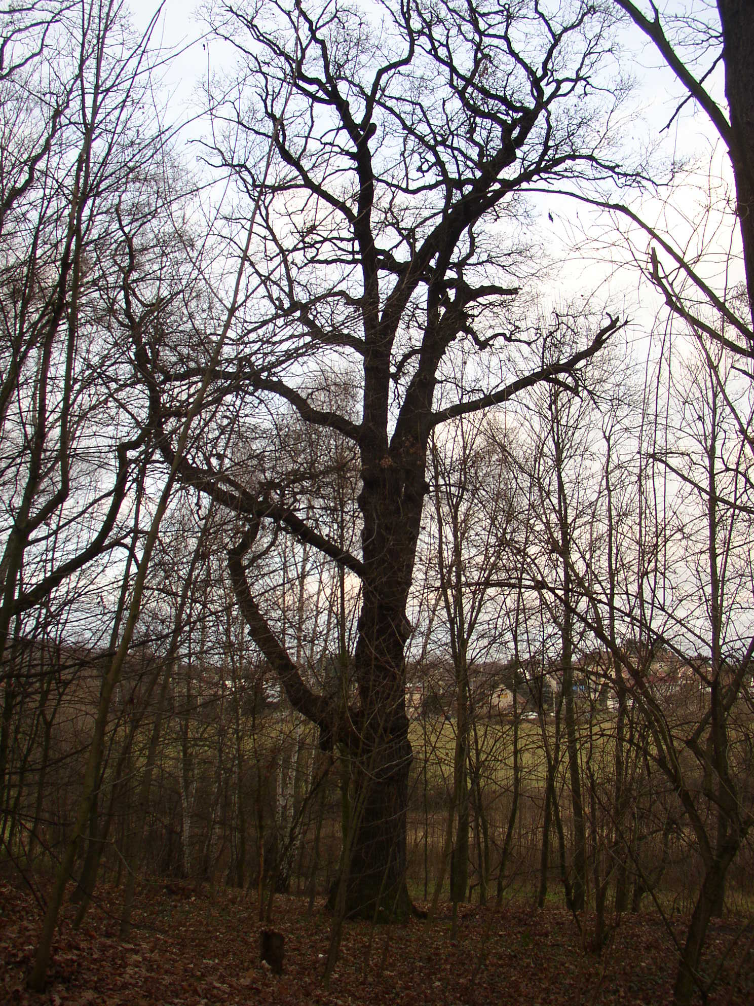 Protected example of Pedunculate Oak (Quercus robur) in Kladno-Vrapice, Kladno District, Czech Republic.